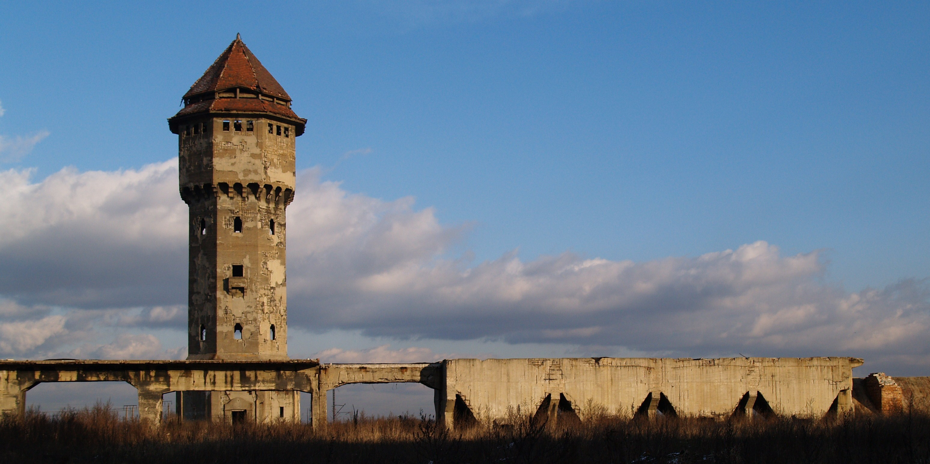 Katowice Szopienice. Water tower in former Uthemann Ironworks.